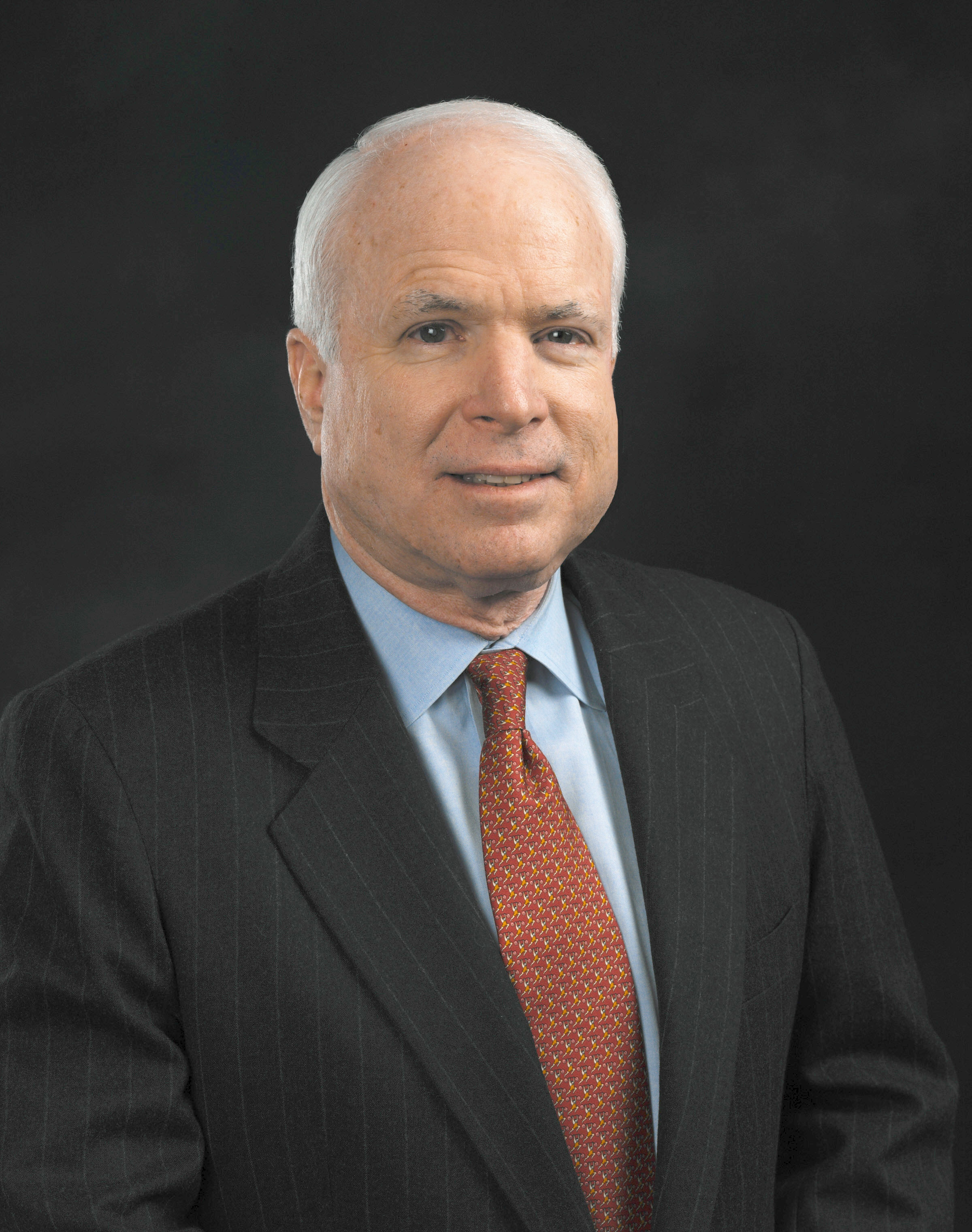 John McCain official photo portrait.